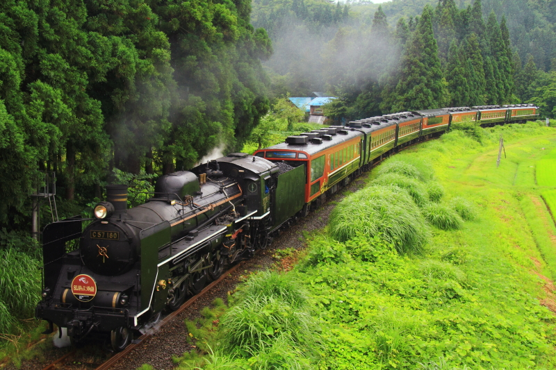 JR East Class C57 steam locomotive C57 180 hauling the SL Banetsu Monogatari trainset on the Banetsu West Line